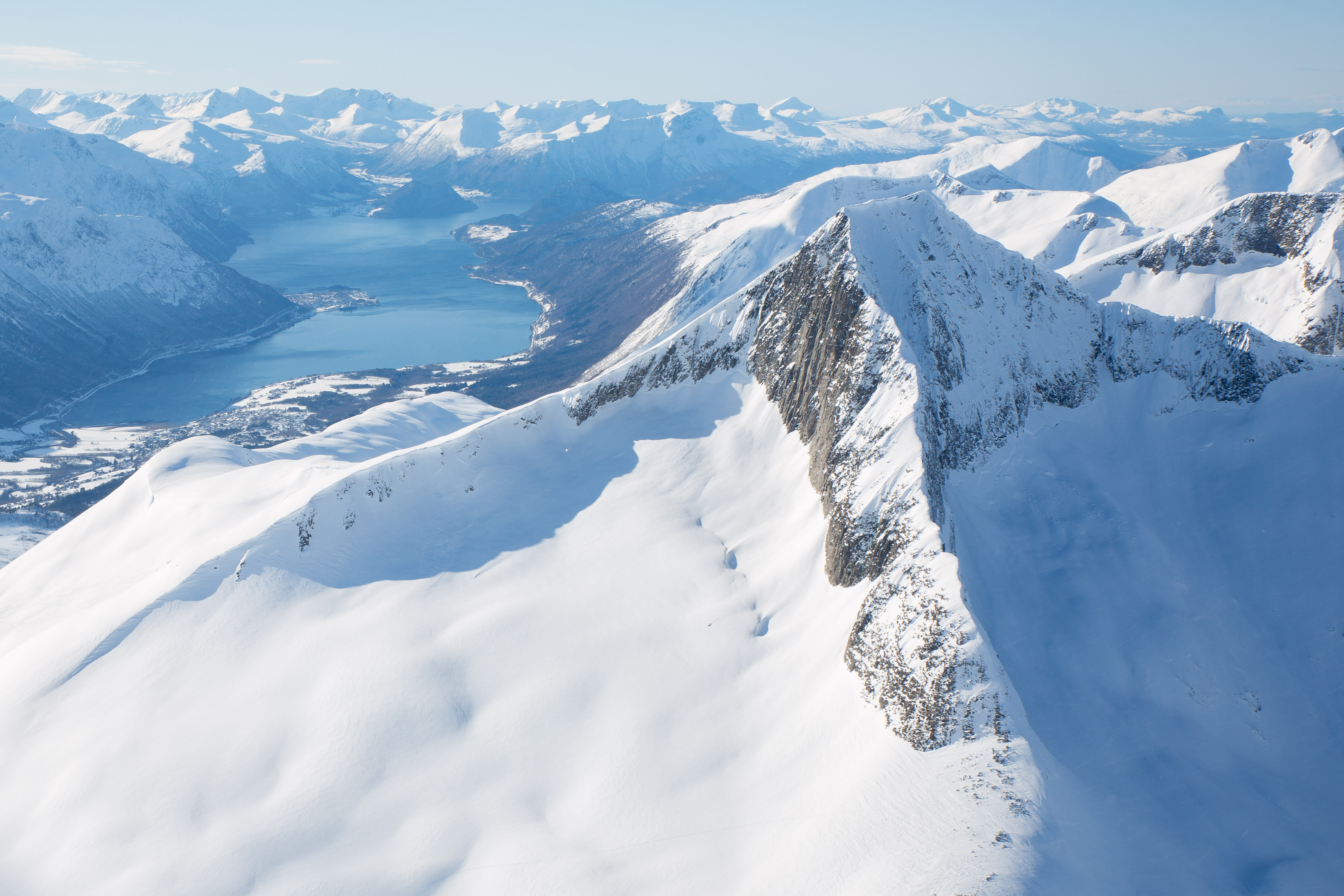 The mountain Kyrkjetaket at winter as seen from the top of Kjøvskartind, Åndalsnes, Norway